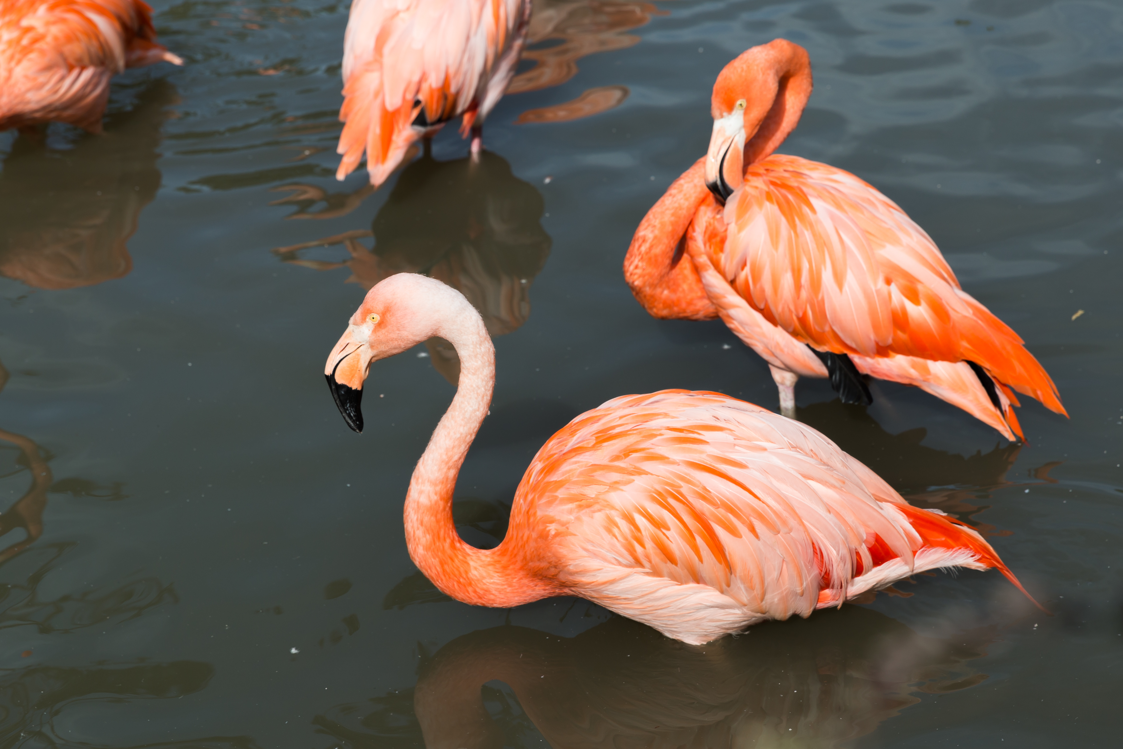 Phoenicopterus ruber (American flamingo) in the ZooParc de Beauval à Saint-Aignan-sur-Cher, France.